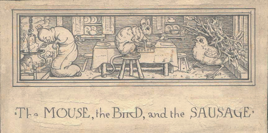 Illustration of "The Mouse the Bird and the Sausage" a story by the Brothers Grimm.